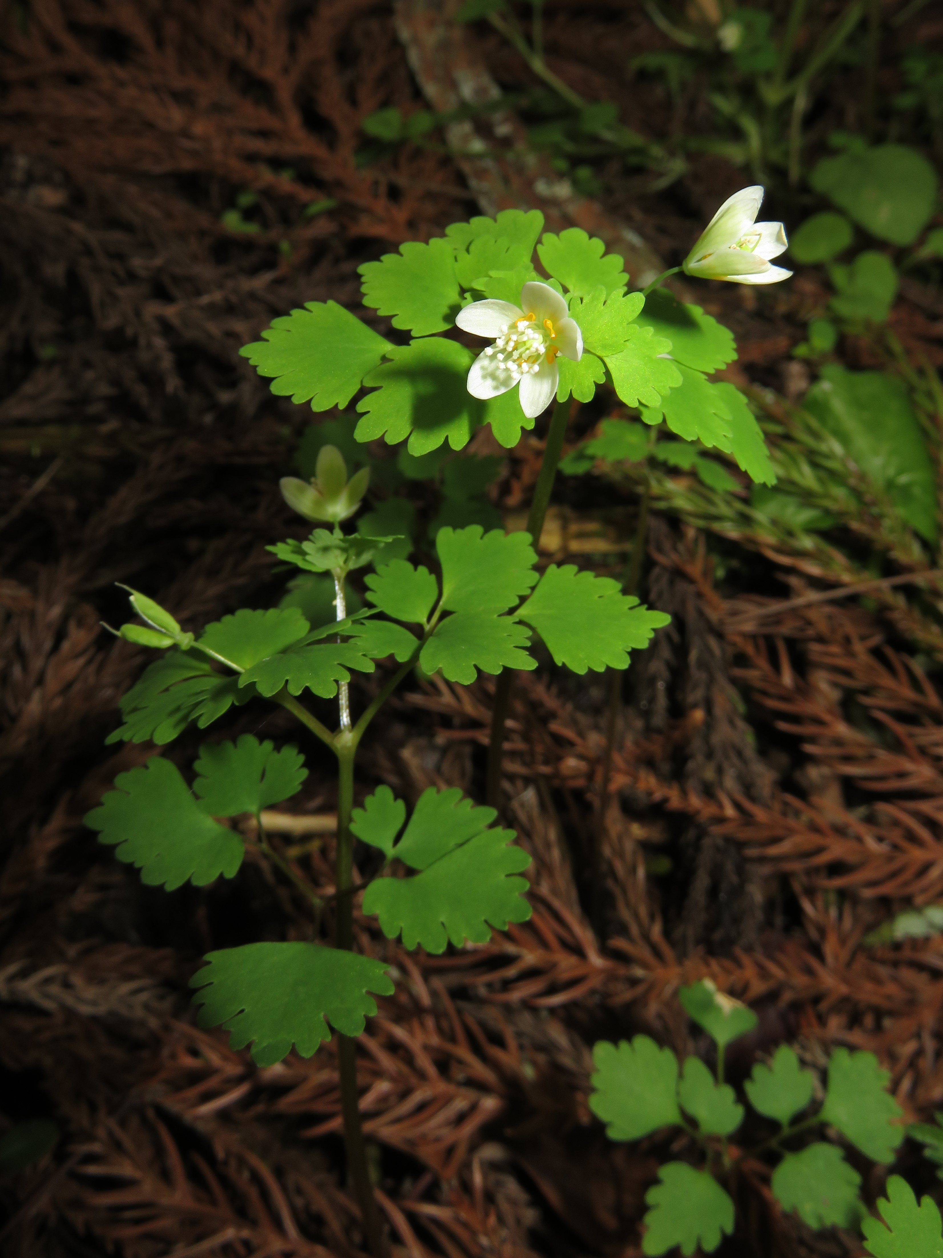 Dichocarpum trachyspermum, Hama-dori area, Fukushima pref., Japan